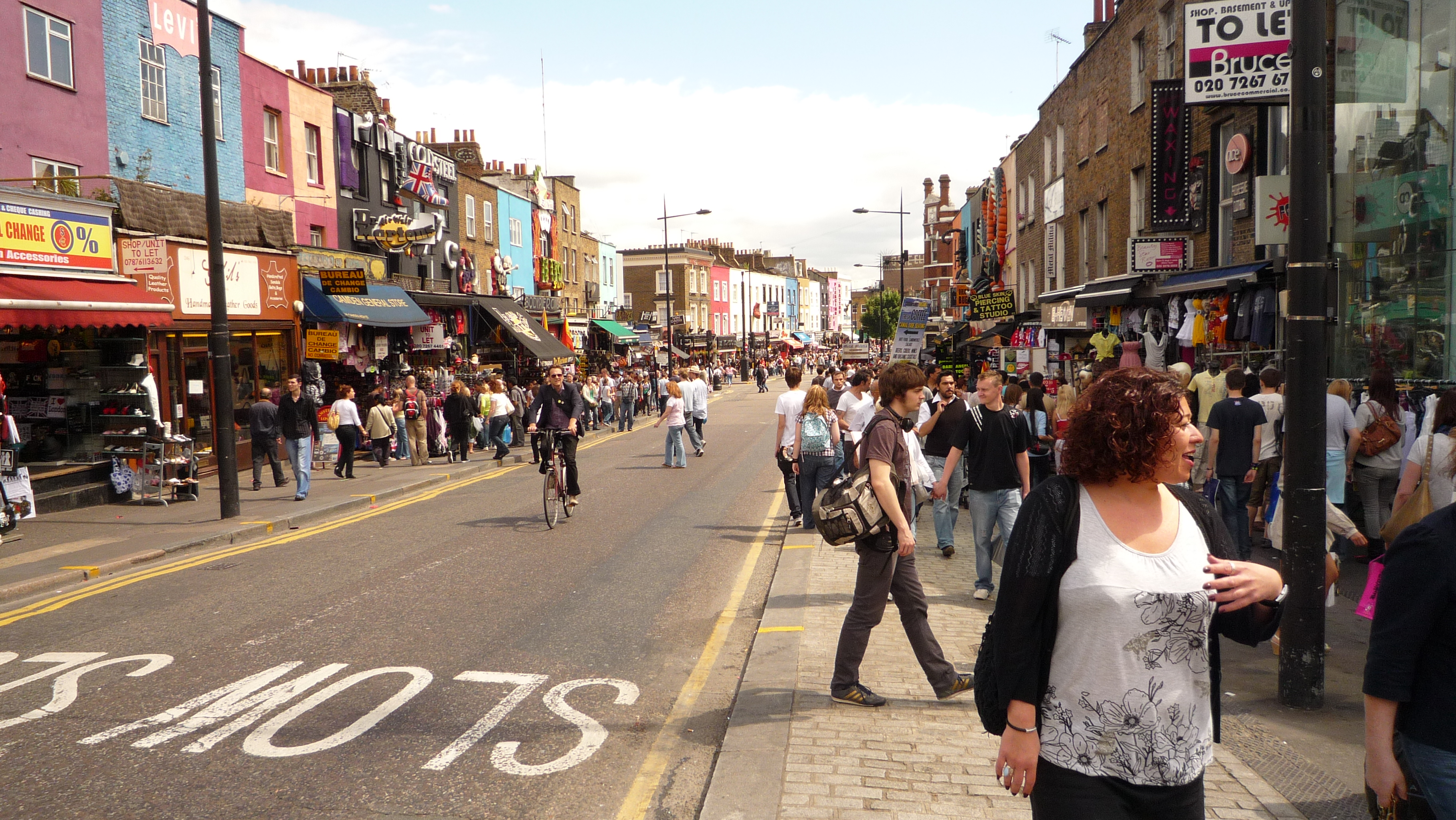 A picture of Camden High Street, London, UK